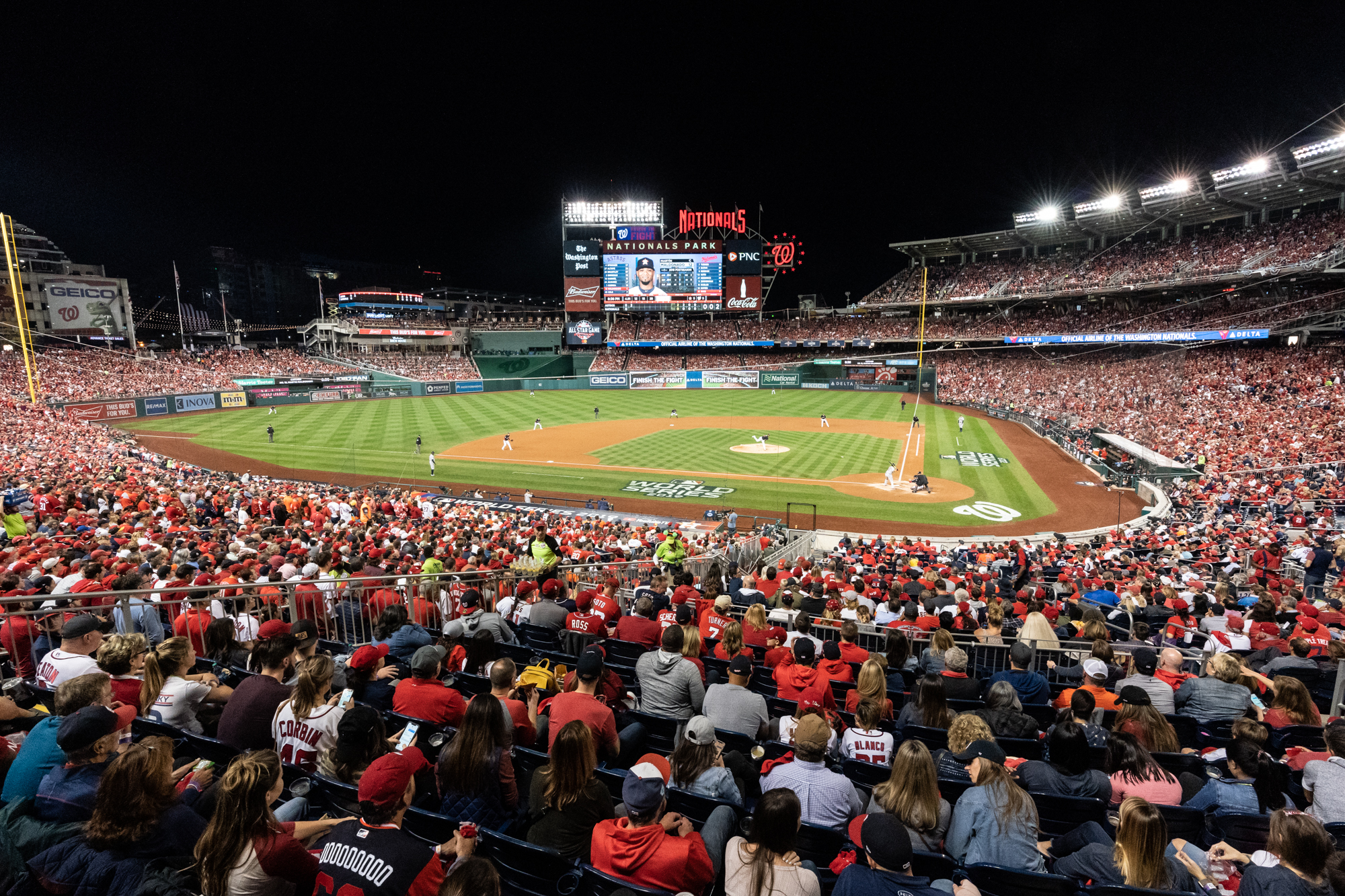 Fans cheer on the Nationals during Game 5 of the MLB World Series between the Washington Nationals and the Houston Astros baseball teams on Sunday evening, Oct 27, 2019, at Nationals Park in Washington, D.C. (Official White House Photo by Andrea Hanks)